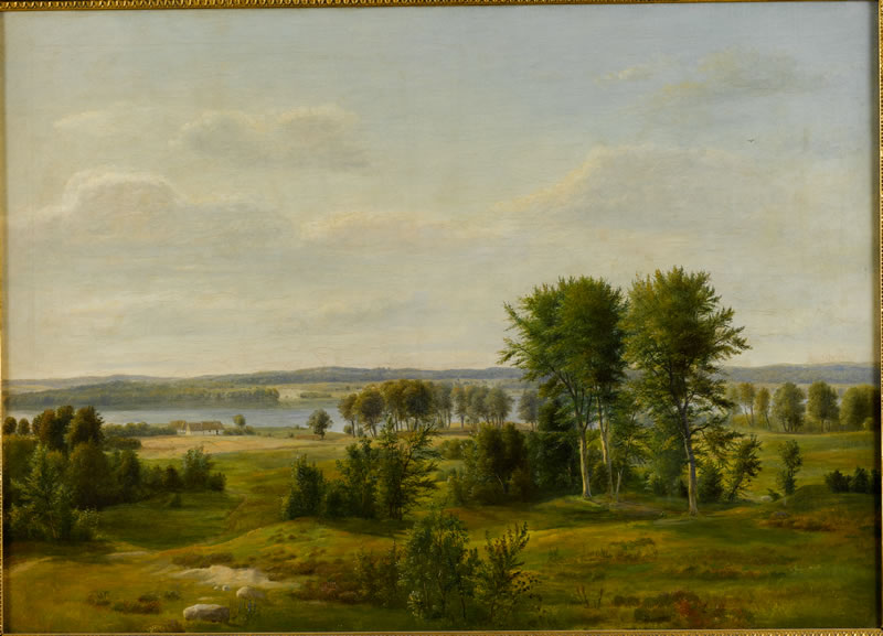 Painting by Dankvart Dreyer from the environs of Fredensborg north of Copenhagen, Denmark